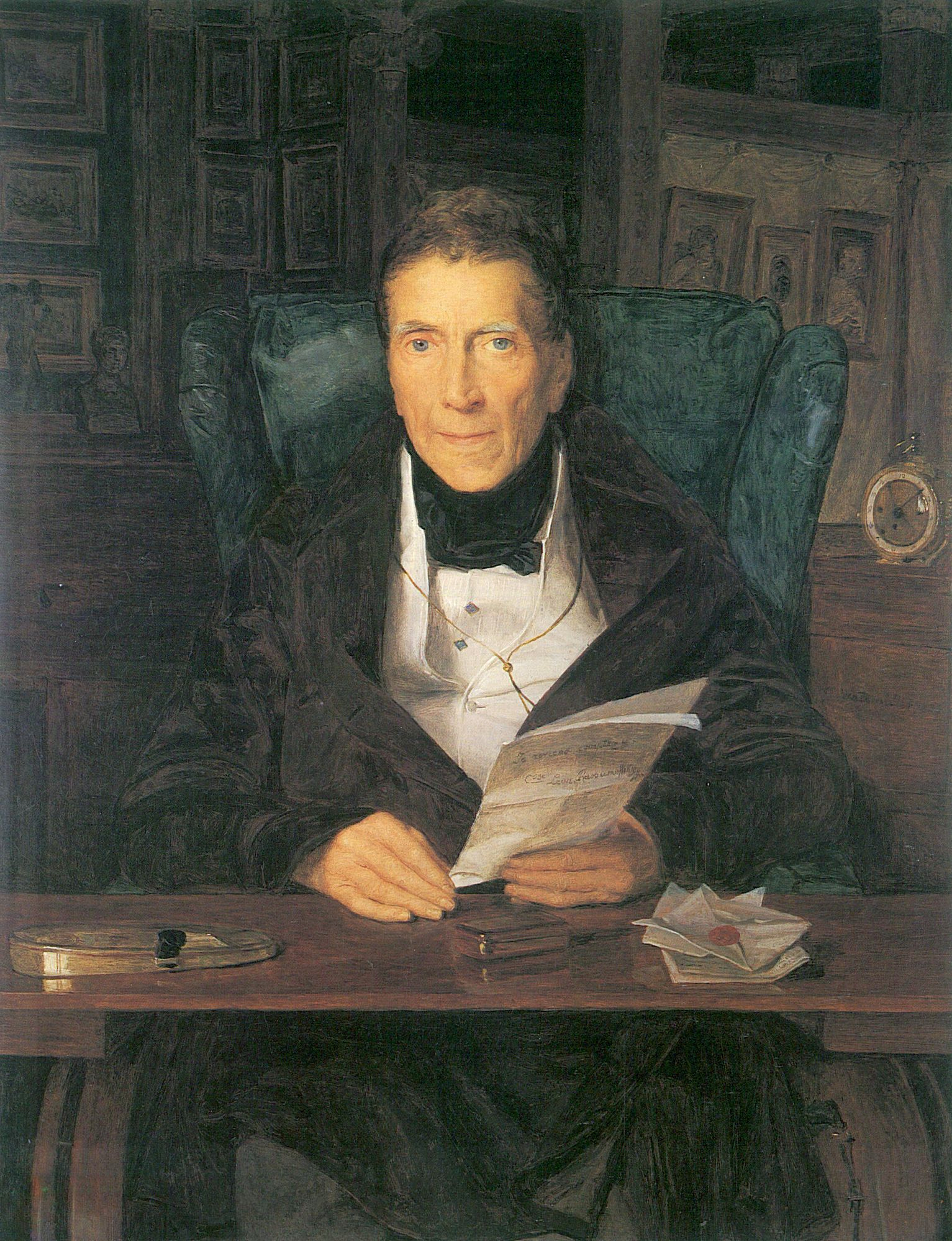 Portrait Prince Andrey Razumovsky (1752-1836), Russian diplomat in Vienna and patron of Beethoven.